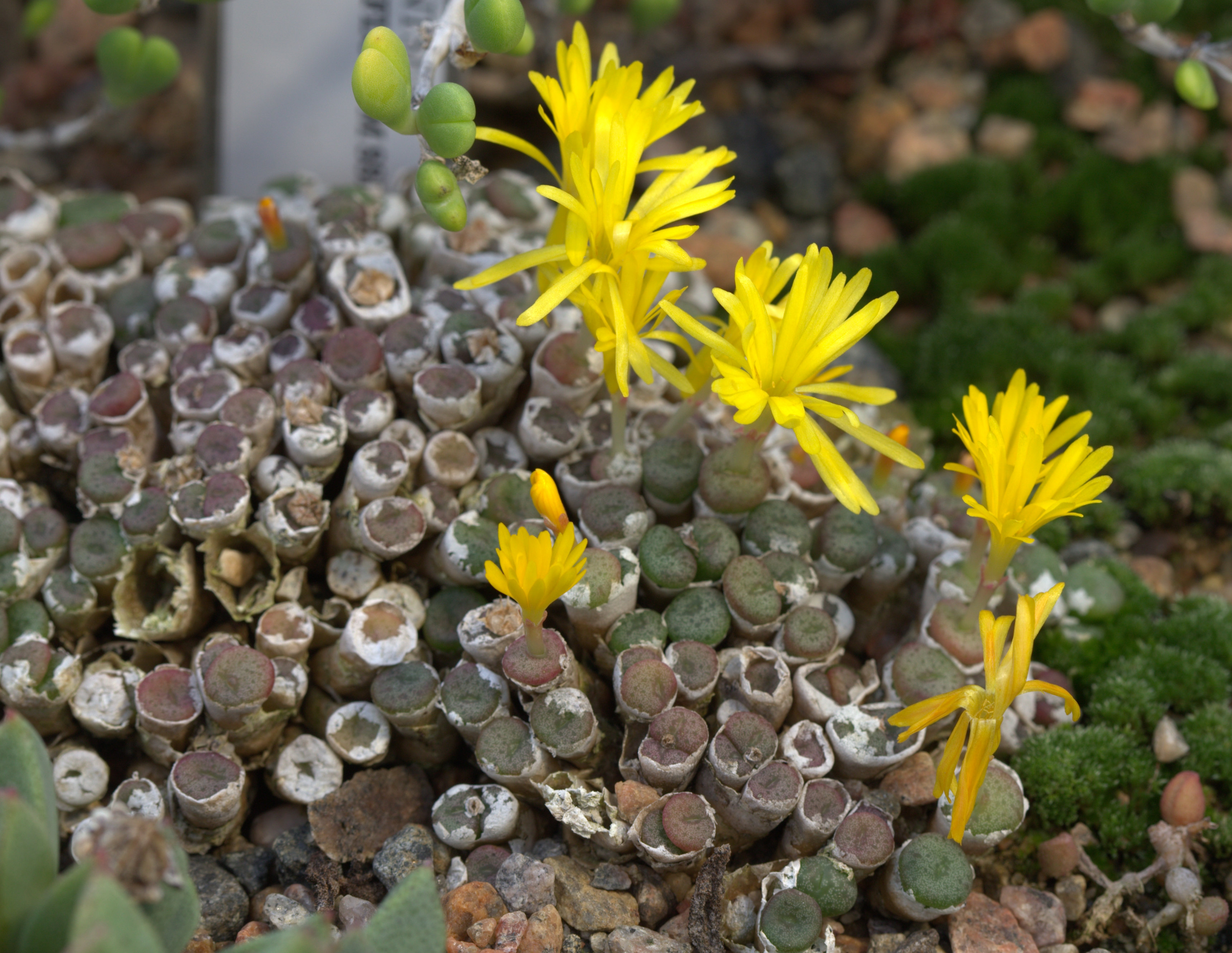 Conophytum auriflorum ssp. turbiniformis at Gothenburg Botanical Garden. Plant id: 2001-1996 p Z -- Lintsen